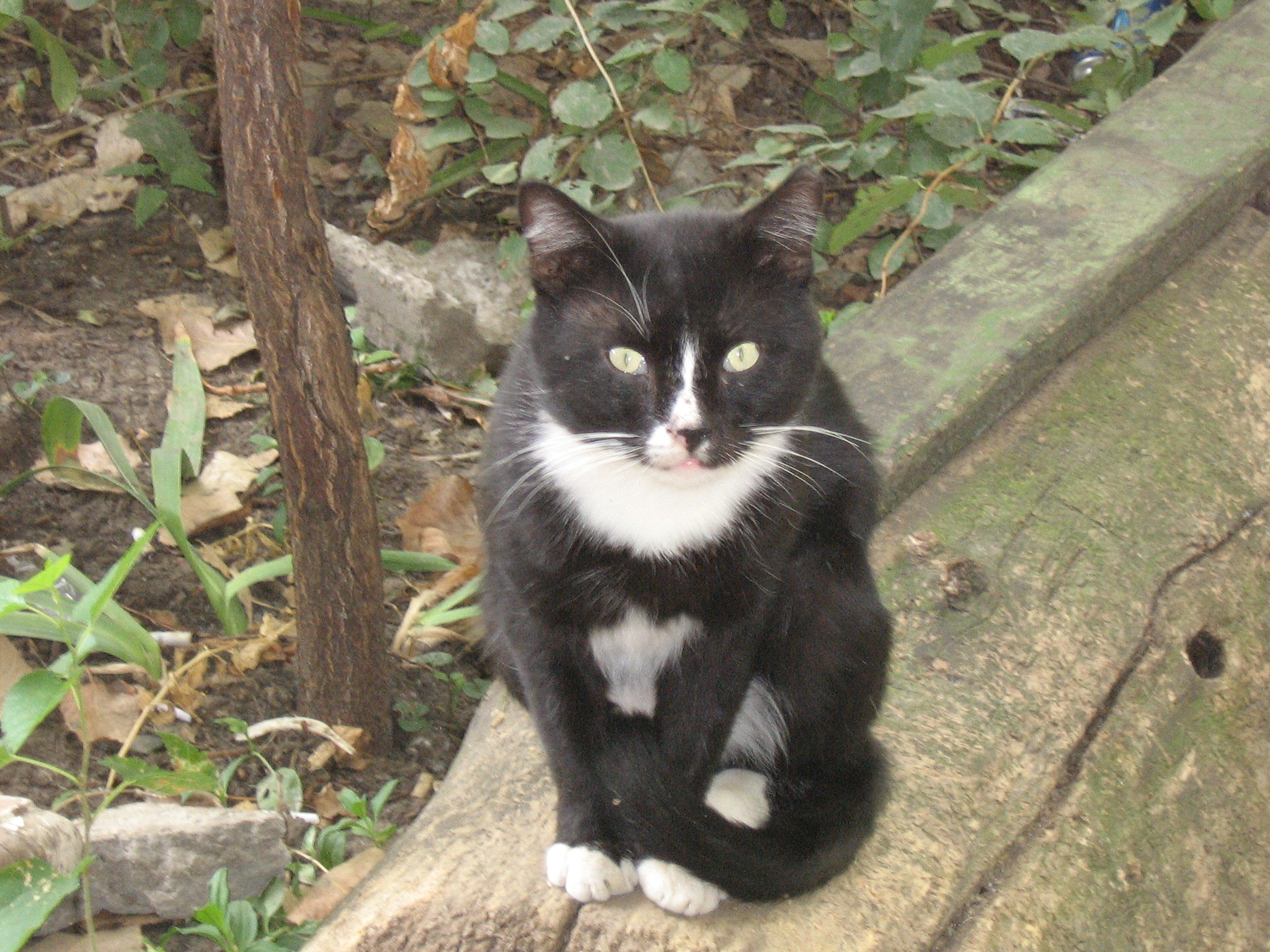 Cats)